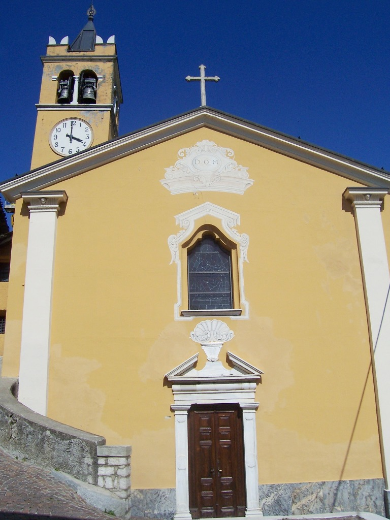 Church of S Gregory Magno. Canè, Val Camonica, Italy.